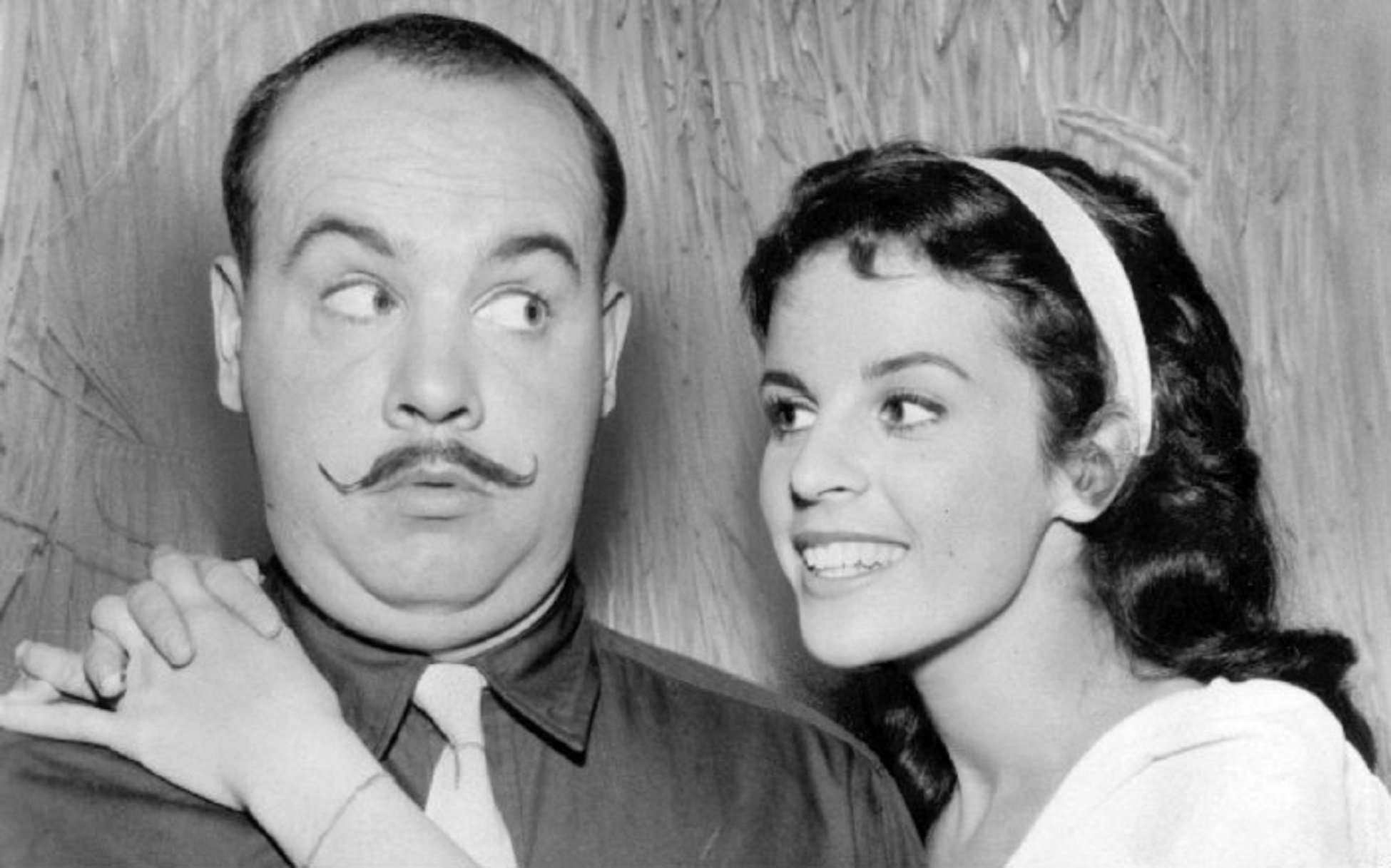 Publicity photo of Claudine Longet and Tim Conway from McHale's Navy.